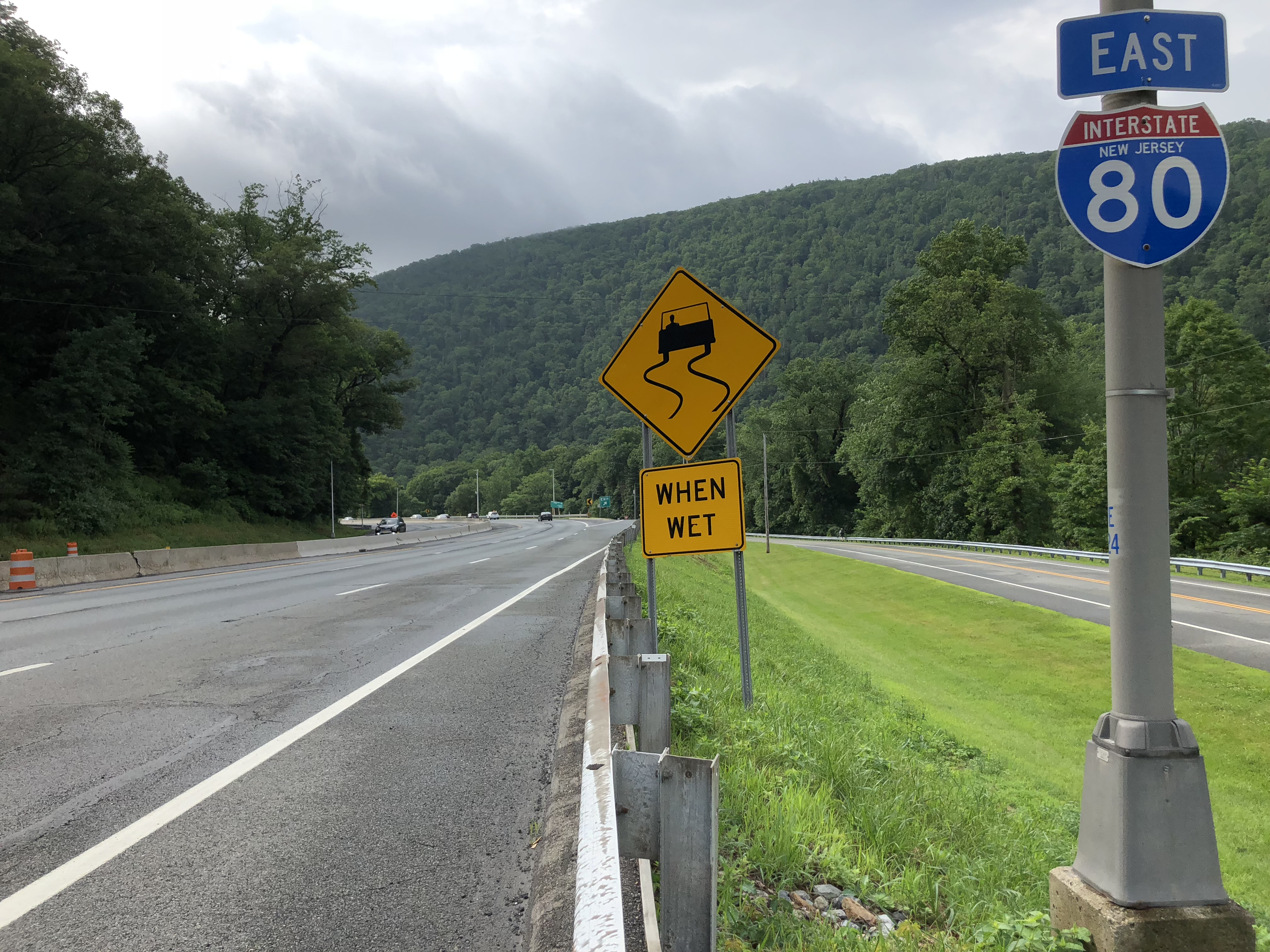 View east along Interstate 80 just west of Exit 1 within the Delaware Water Gap in Hardwick Township, Warren County, New Jersey